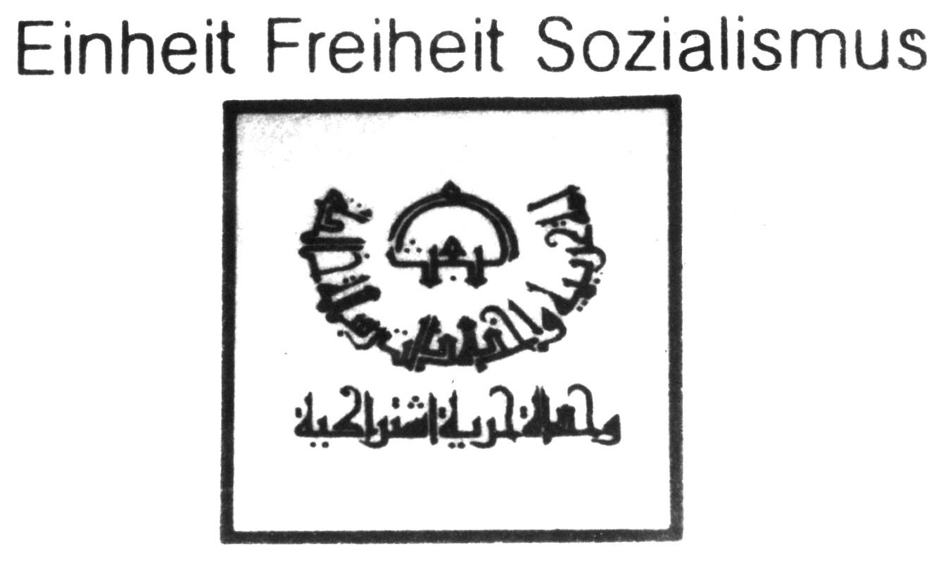 Baath Party Logo (as seen on publications by Iraqi Ministry of Information between 1974 and 1987) with the party slogan "Unity, Freedom, Socialism" (Unity, Liberty, Socialism) in the down line, "A united arab nation/community with an eternal mission" in the middle circle and "Ba'th" above